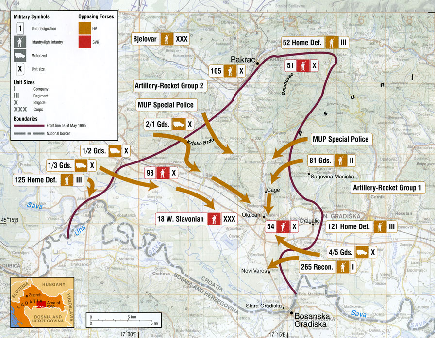 Balkan War/Croatia War/Map of Operation Flash (Bljesak)